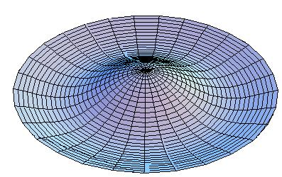 Example of Bessel function -- the vibration mode of a drum